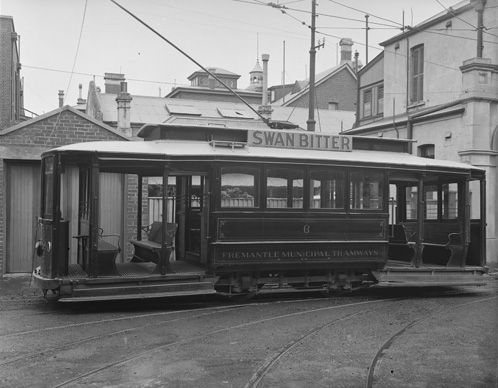 Fremantle Municipal Tramways tram no 6, outside the High Street car barn.